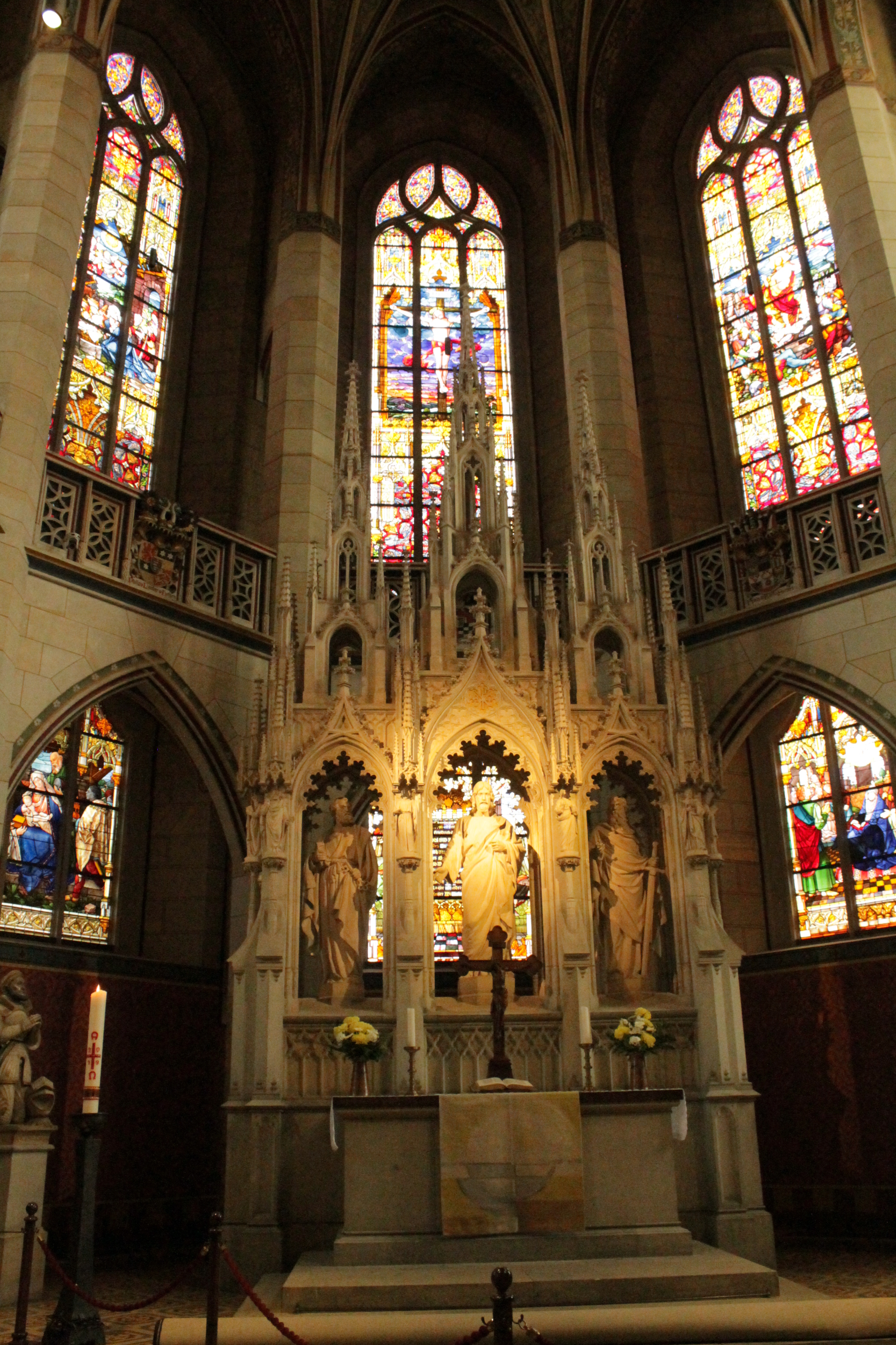 Altarpiece and east windows, Schlosskirche, Wittenberg